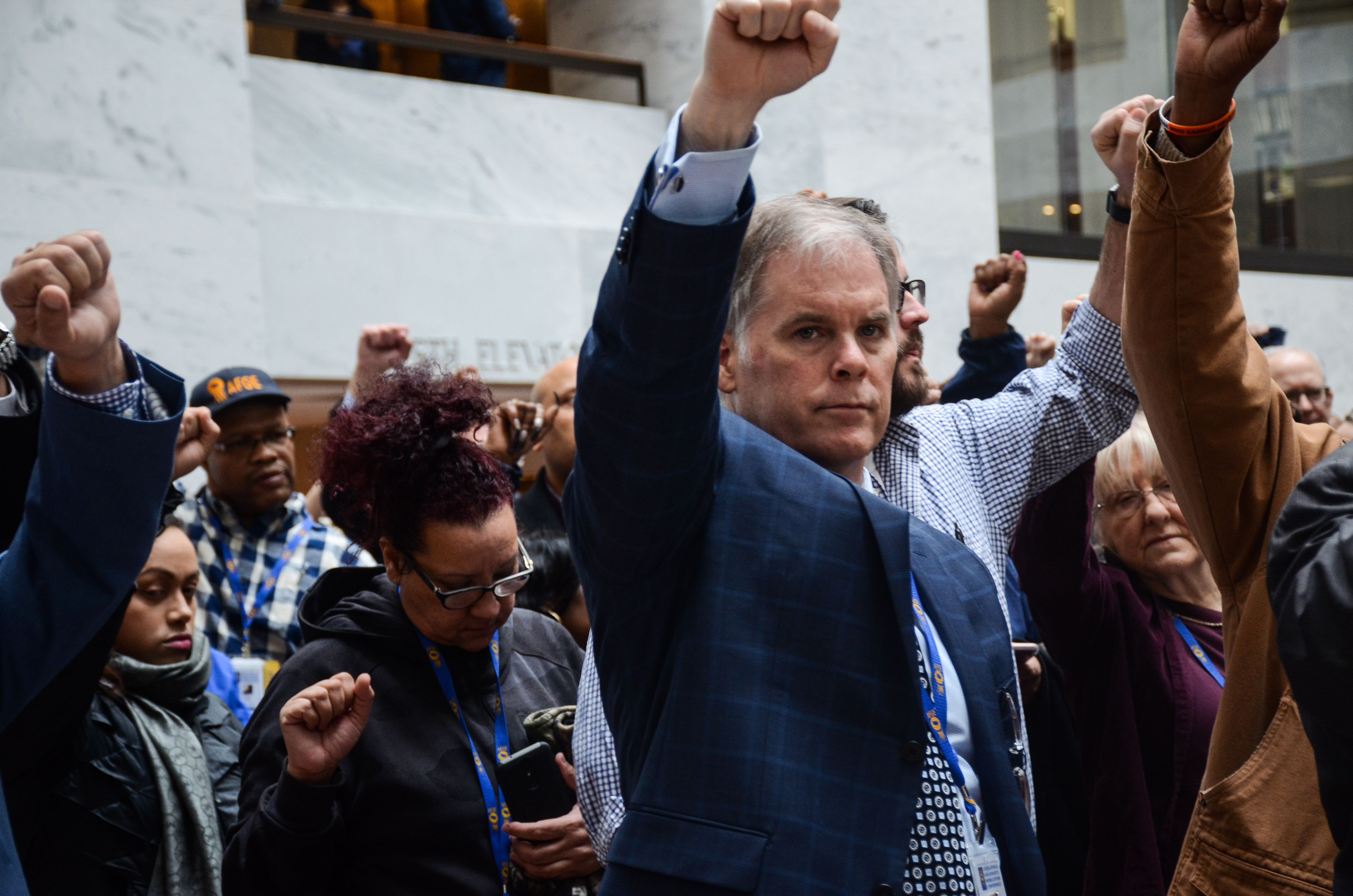 Federal employees hold a silent protest at noon on Feb. 13 at the Hart Senate Office Building atrium to demand that Congress avoid another costly shutdown and keep our government open.